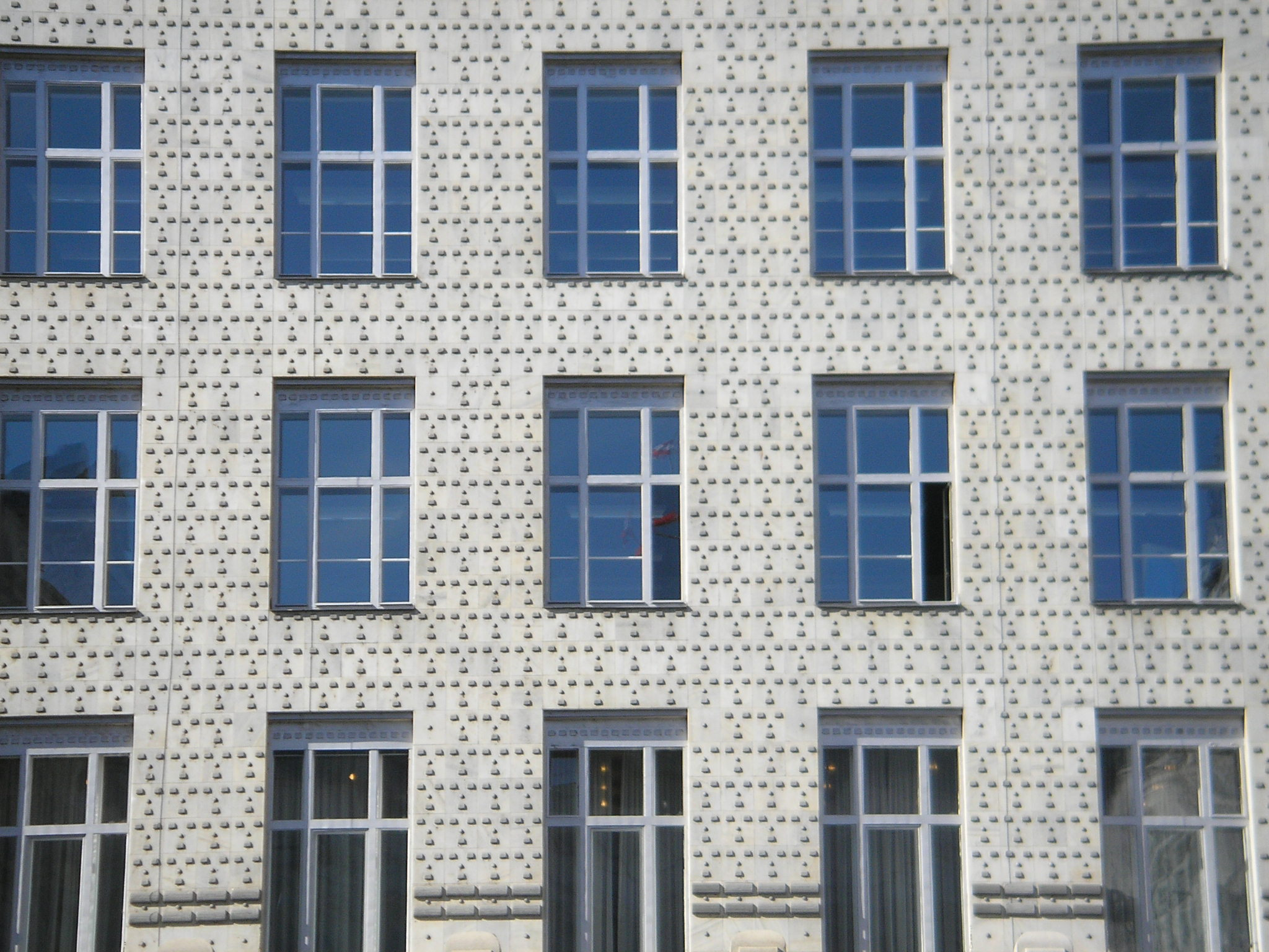 Detail image of the Österreichische Postsparkasse (P.S.K.), constructed by Otto Wagner.